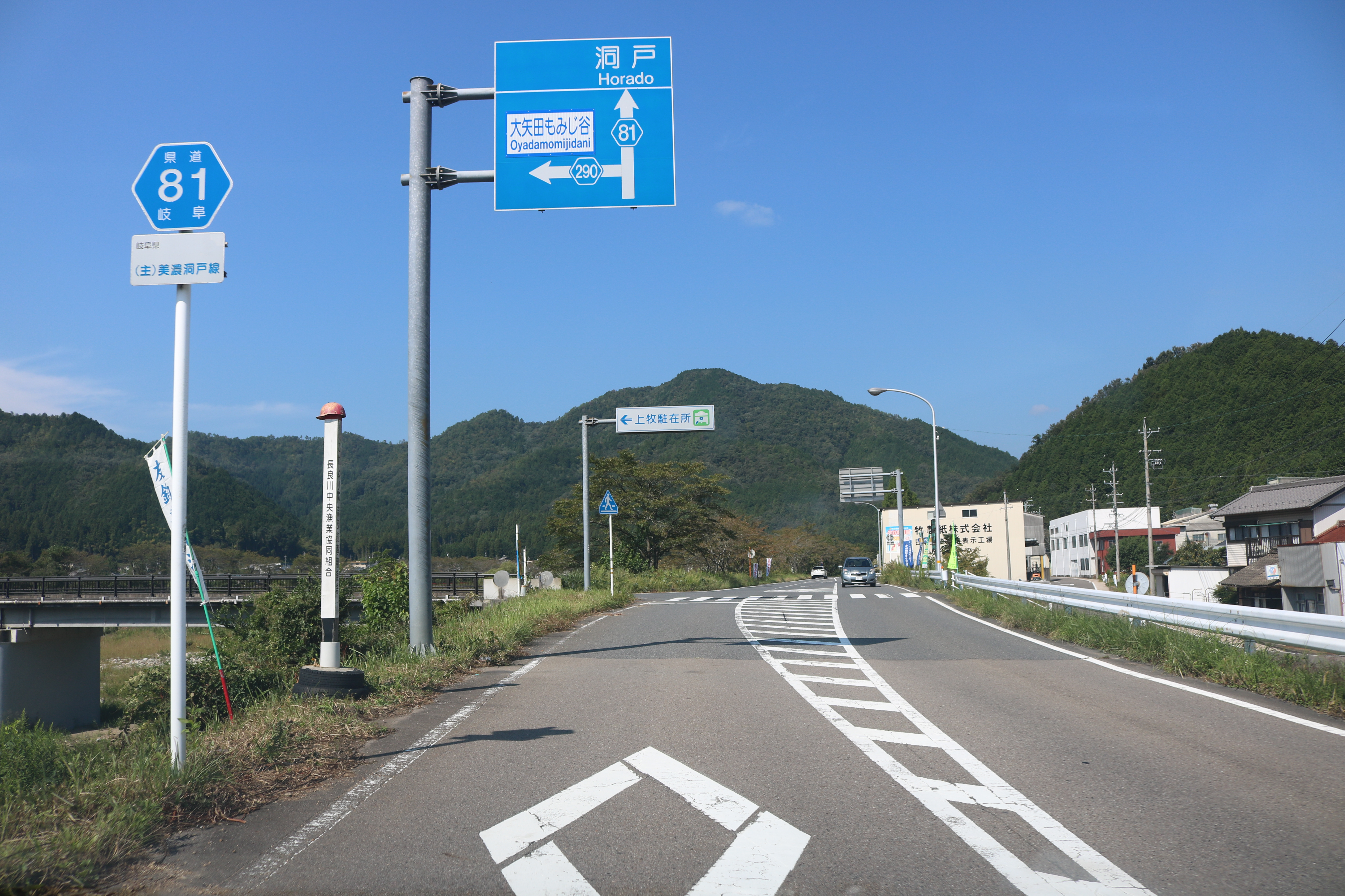 Gifu Prefectural Road Route 81 and Gifu Prefectural Road Route 290 in Kamino, Mino, Gifu Prefecture, Japan.